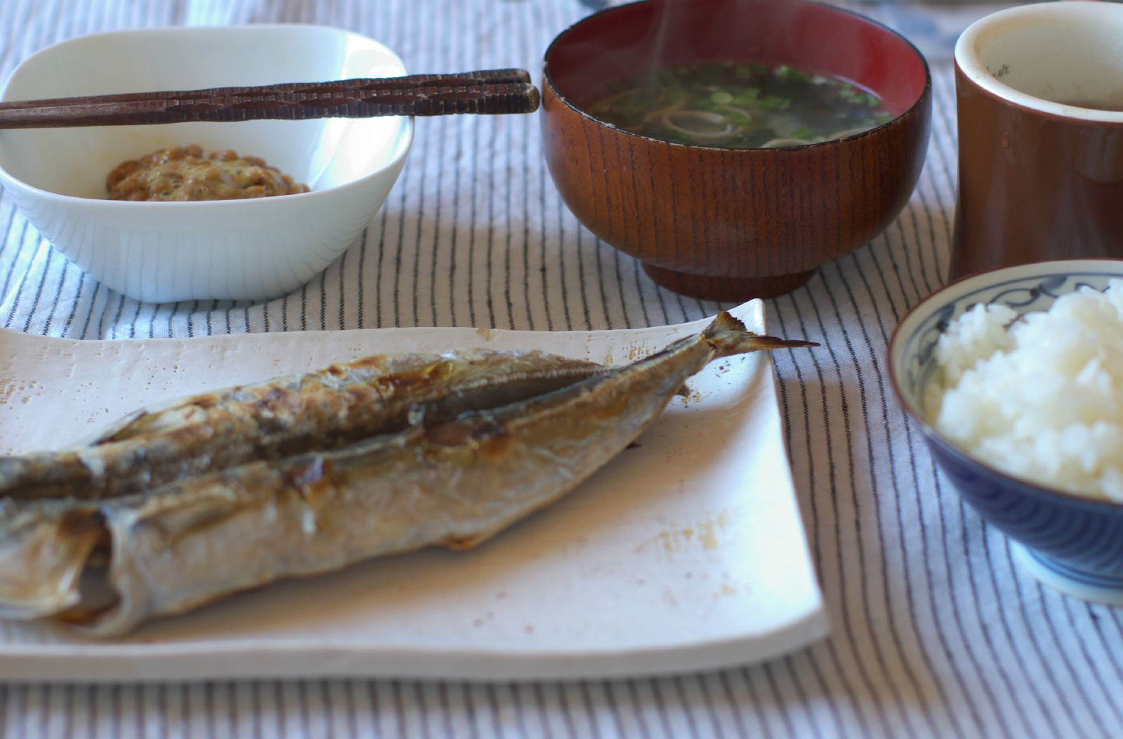 Japanese style breakfast.Dried fish,white rice,miso soup,natto,hoji-tea.和風朝飯